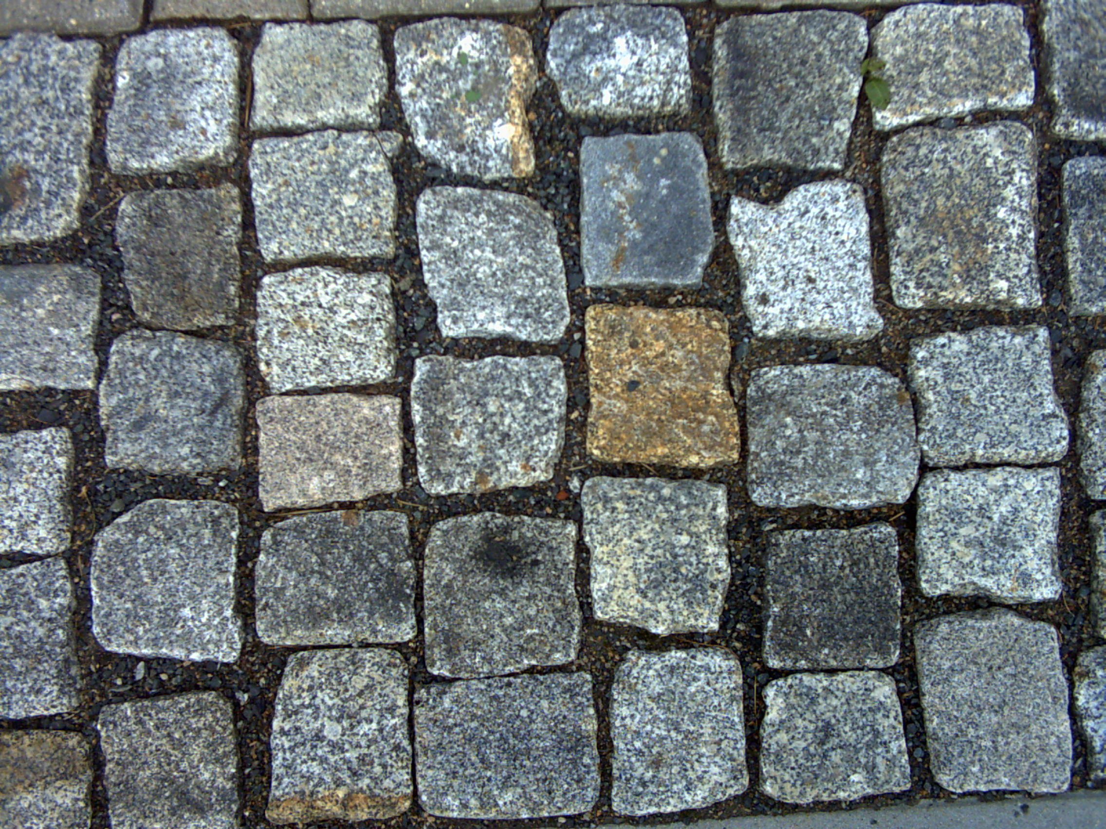 This picture shows some cobblestones on a way in Germany.